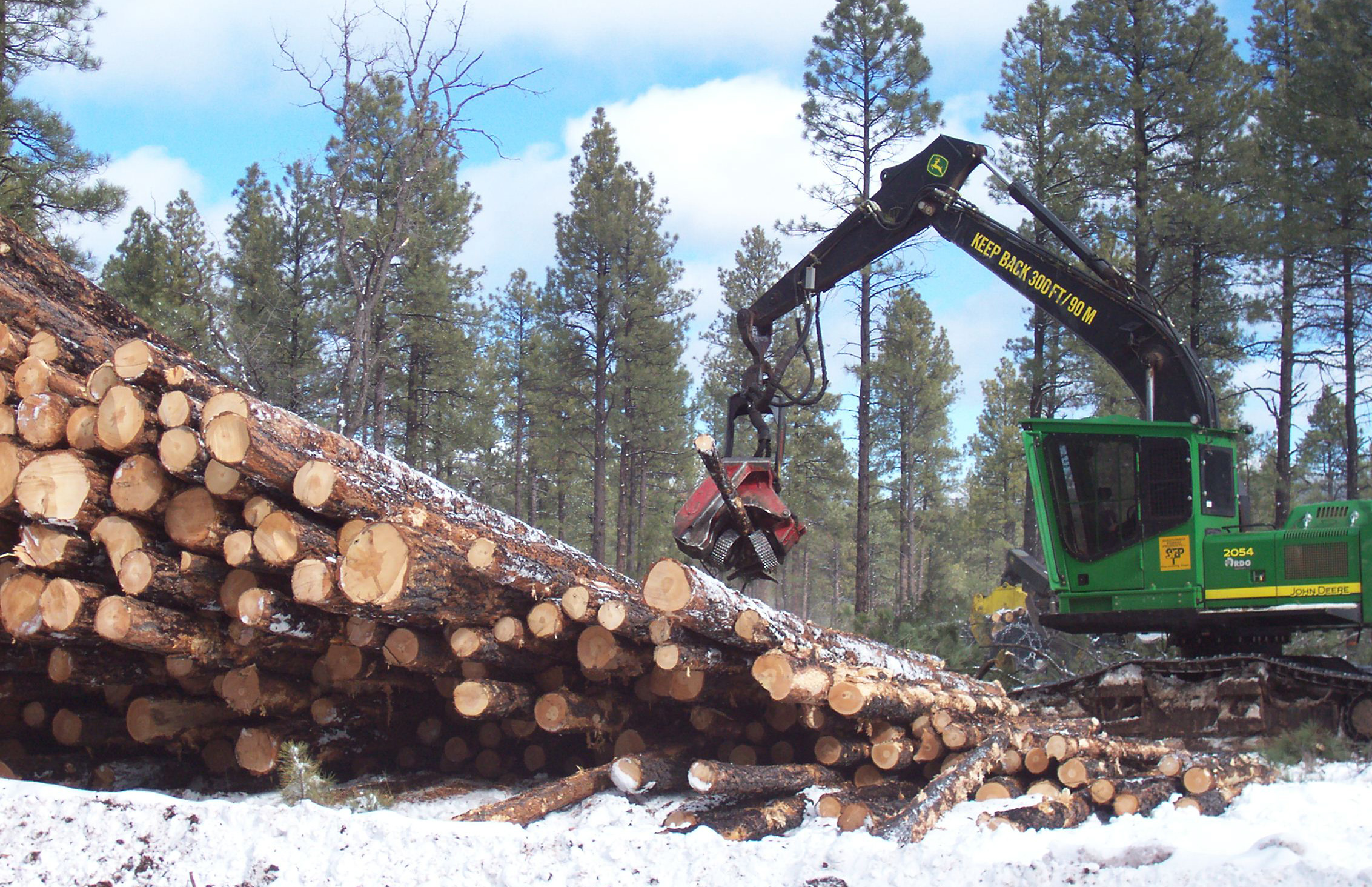 A forestry swing machine at work in Kaibab National Forest, Arizona, United States. The crawler track machine here is a modified John Deere 2054 with a Waratah harvester head attachment. Commonly the high ground clearance 2054 swing machine is used as an excavator, but this one is modified into a DHSP forest machine and is used as a harvester here (DHSP = "Deere Hitachi Specialty Product", by the Deere-Hitachi Construction Machinery joint venture, cf. [1]). – The Kaibab (pronounced kie-bab) is one of six National Forests in Arizona operating under the care of the USDA Forest Service.